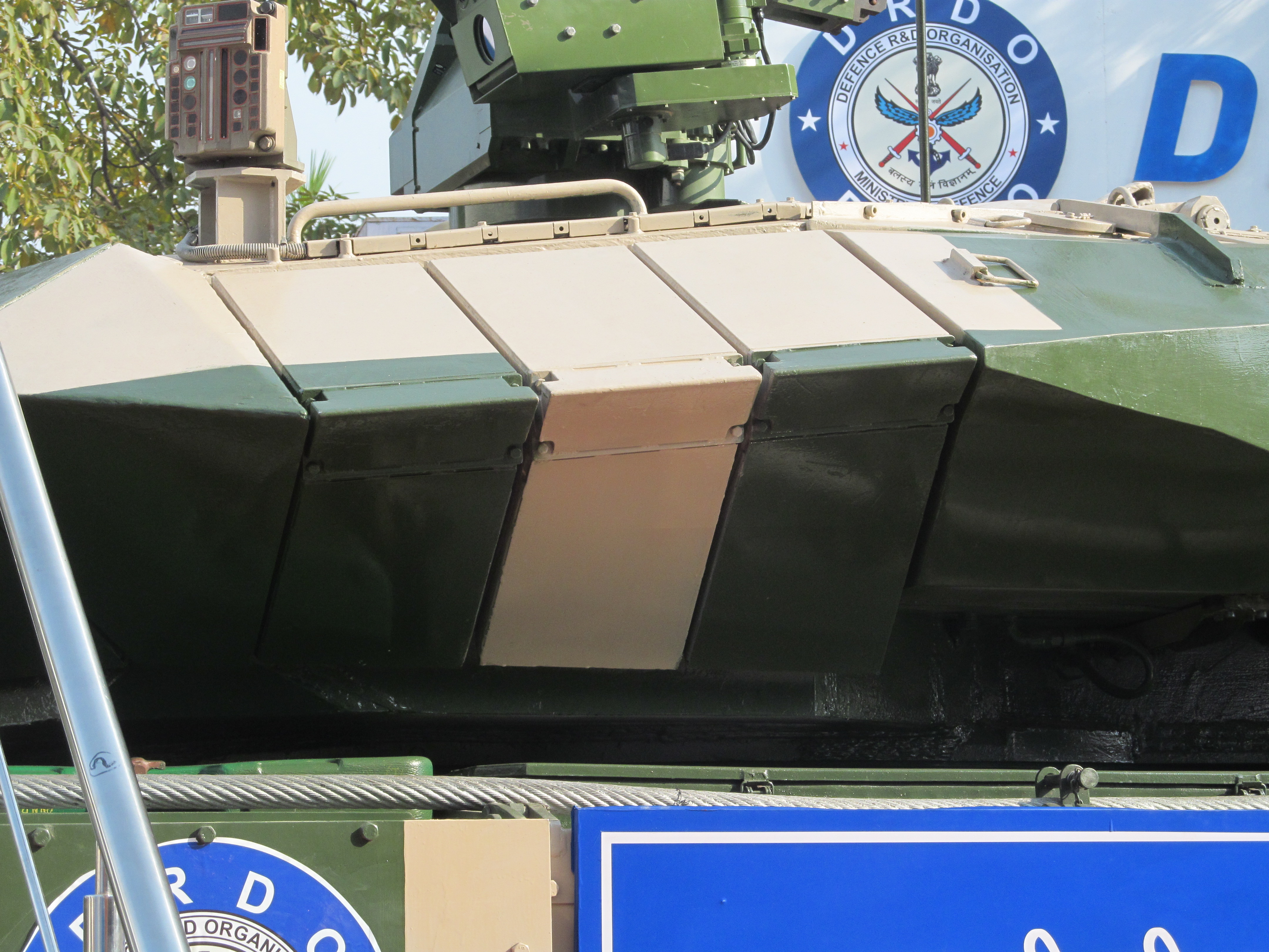 Arjun Mk II turret protection, during DefExpo 2014, New Delhi.